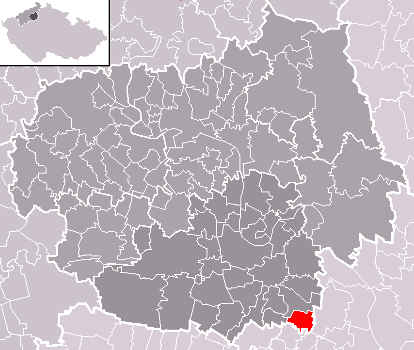 Location of Horní Beřkovice municipality within Litoměřice District and administrative area of Roudnice nad Labem as a Municipality with Extended Competence.